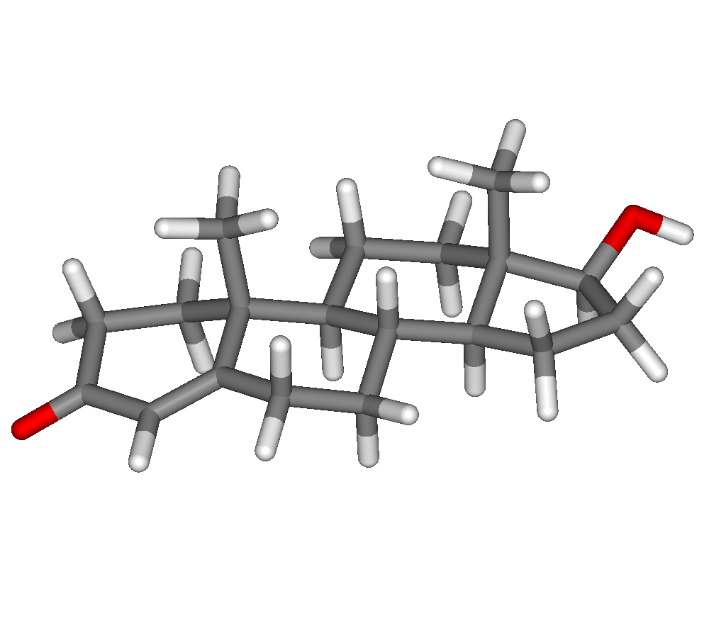 chemical structure of testosterone